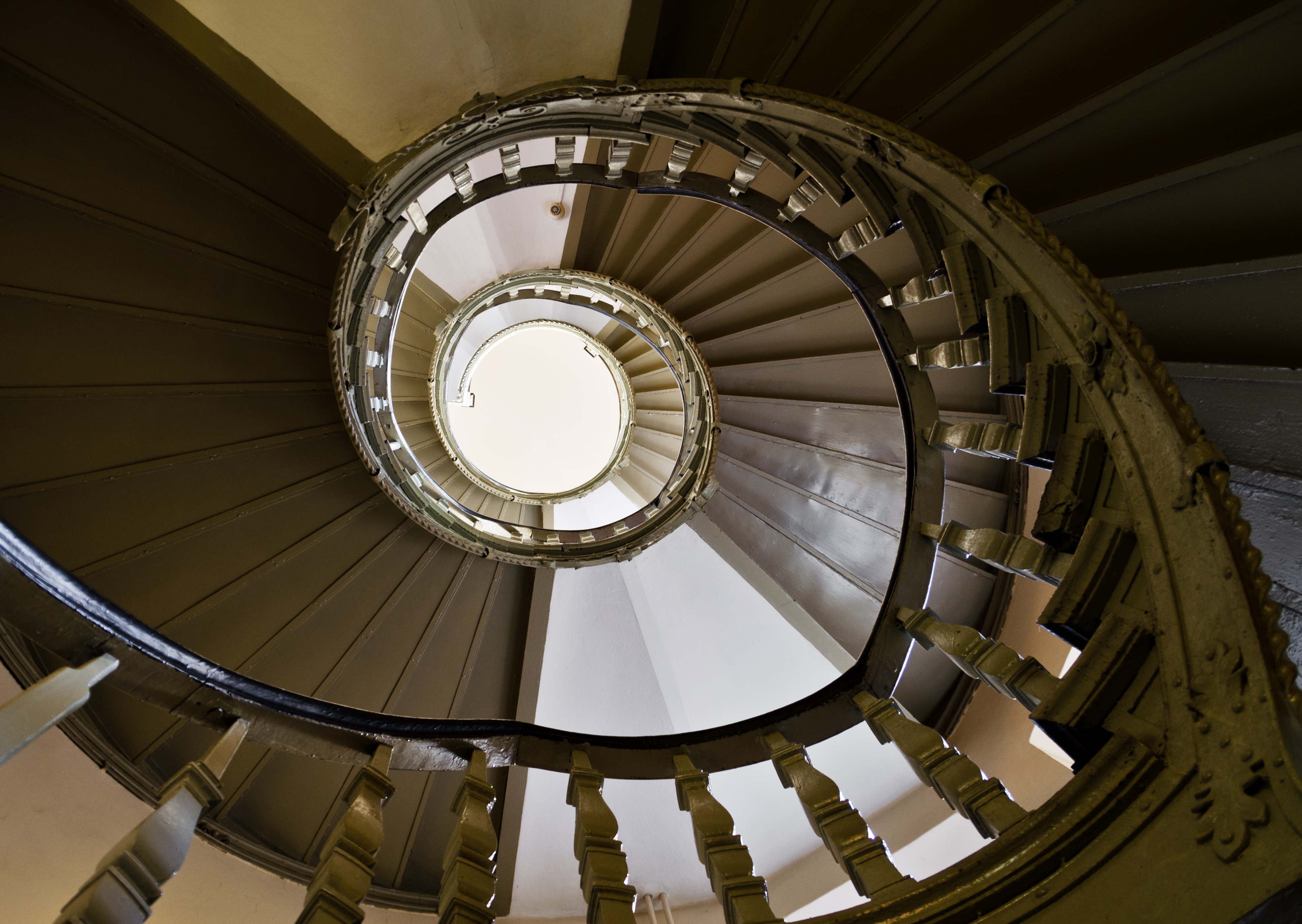 Spiral staircase in Kłodzko town hall.